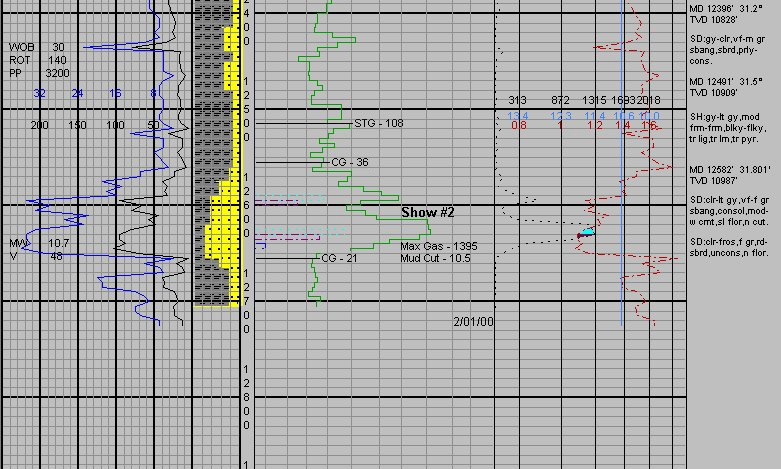 Mud log showing from left to right, plot of porosity (blue), rate of penetration 'ROP' (black), lithology (gray=shale & yellow=sand), gas hydrocarbons (blue=C4, purple=C3, cyan=C2 and green=total), total gas (black-dot), mud weight (light blue), corrected d-Exponent (red-dash).